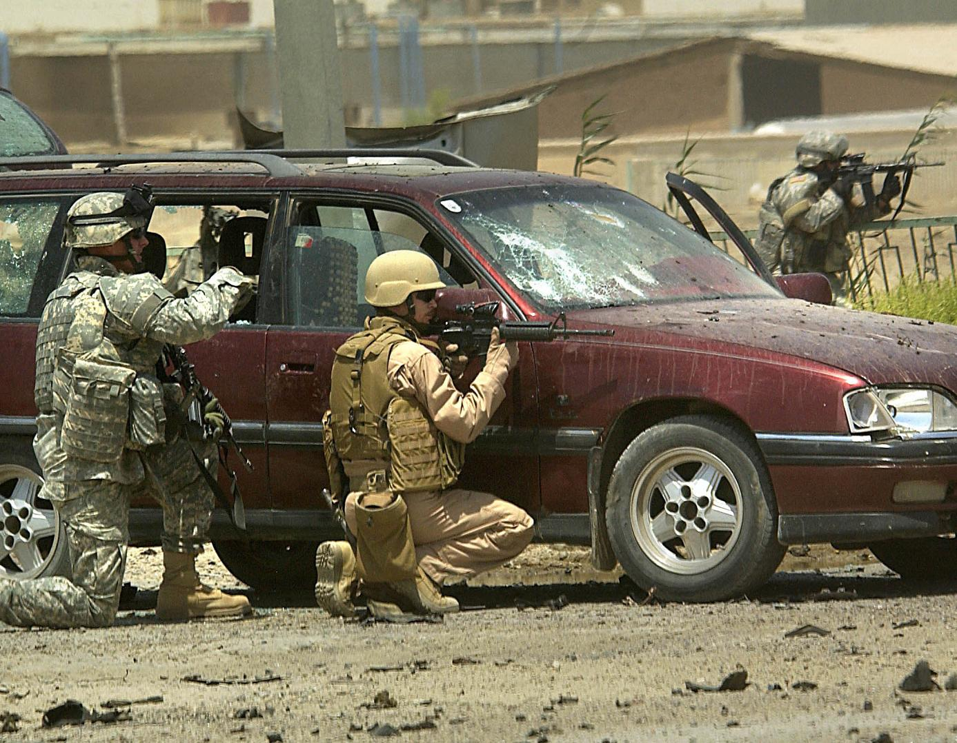 U.S. Marines and Army soldiers SFC Shawn Havens and SSG Richard Luciano from 1st BDE 1st Armored Division 1st PLT Bco 16th Engineer Battalion take cover from small arms fire while investigating the cause of a suicide car bomb explosion in Tameem, Ramadi, Iraq, Aug. 10, 2006. The soldiers, from the 6th Infantry Regiment, attached to the 1st Armored Division, were in Tameem to conduct a cordon and search of a glass factory